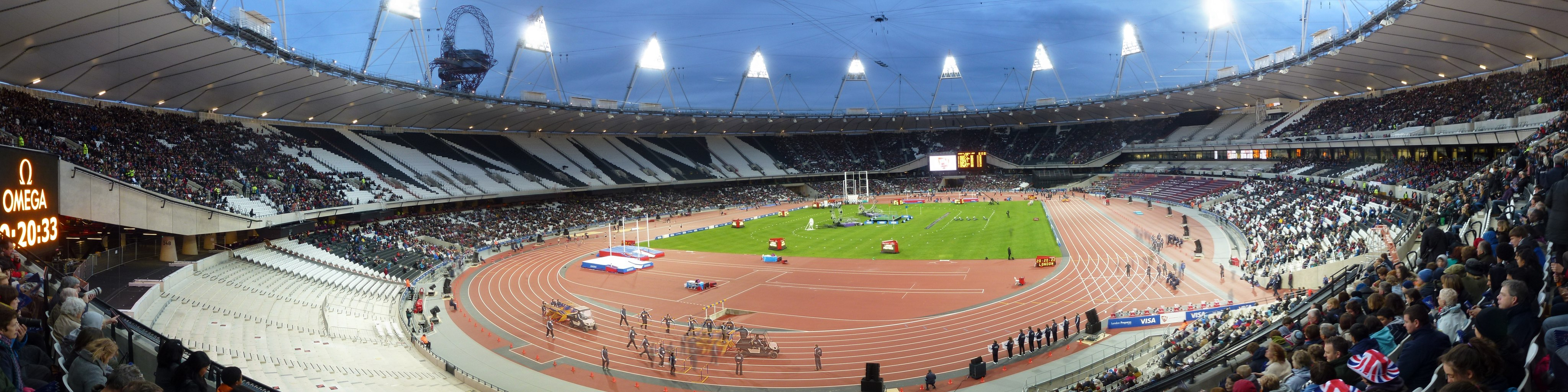 Interior of the London Olympic Stadium just before its opening ceremony on 5 May 2012.